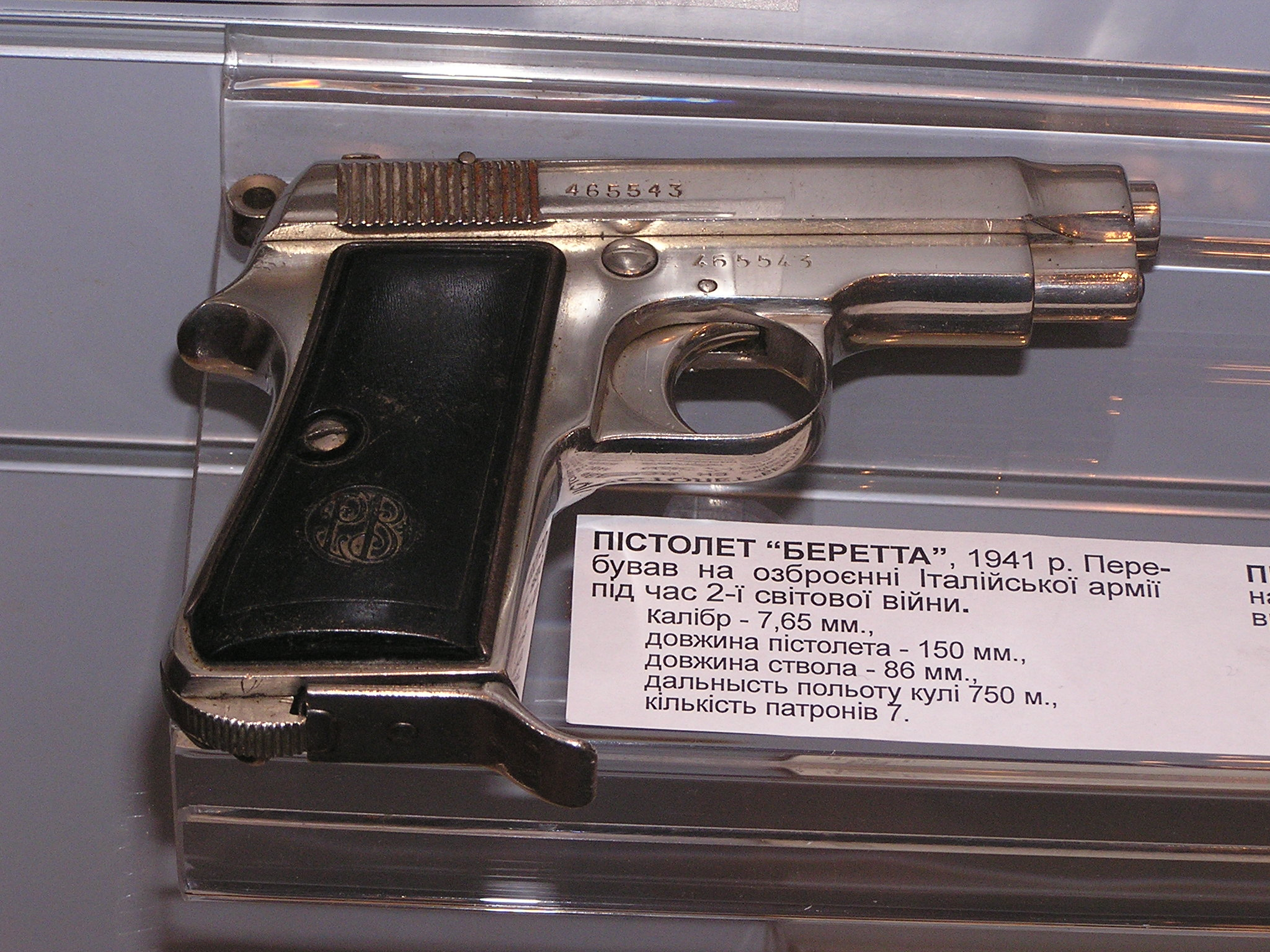 Museum of the History of Donetsk militsiya